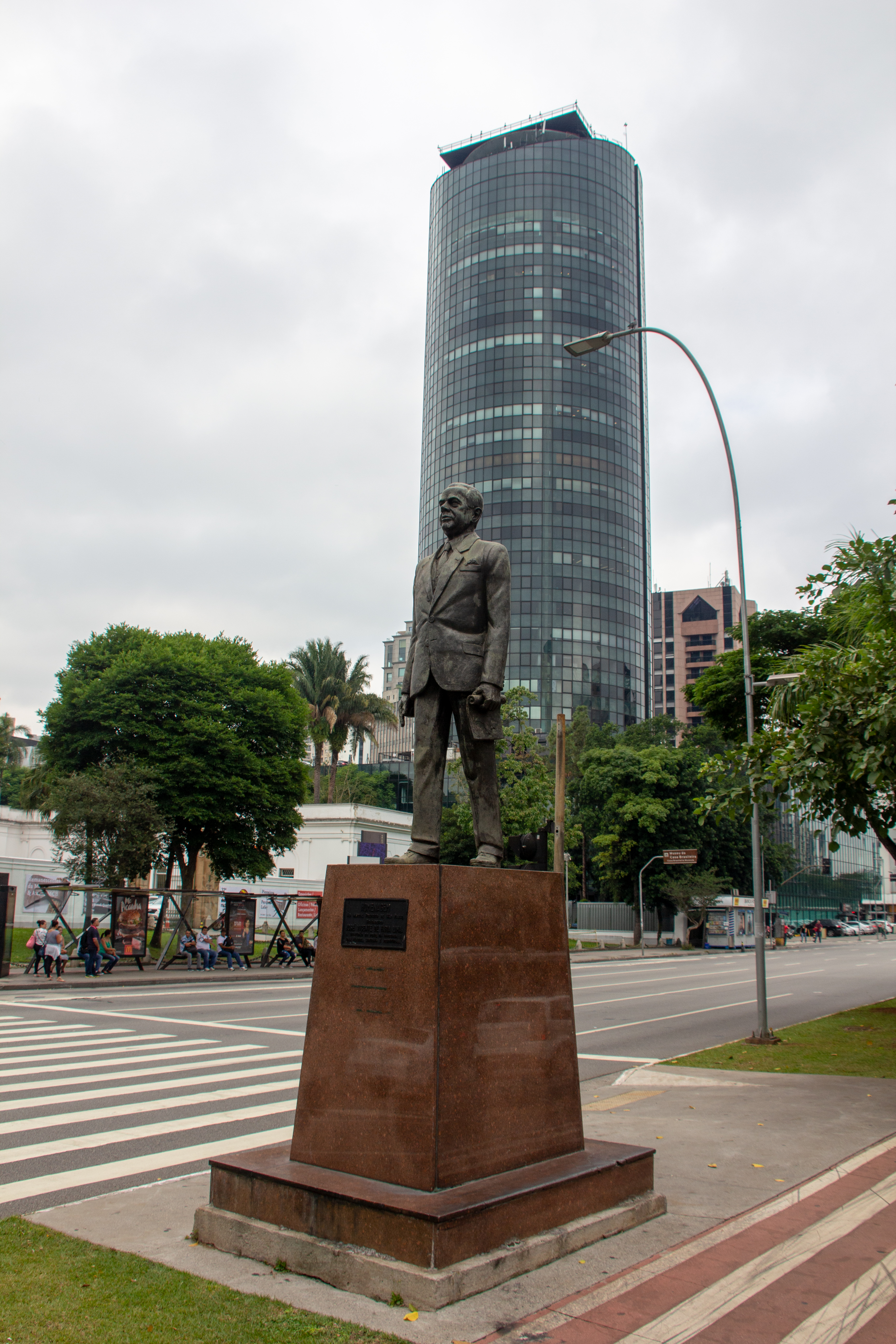 Avenida Faria Lima, São Paulo, Brazil